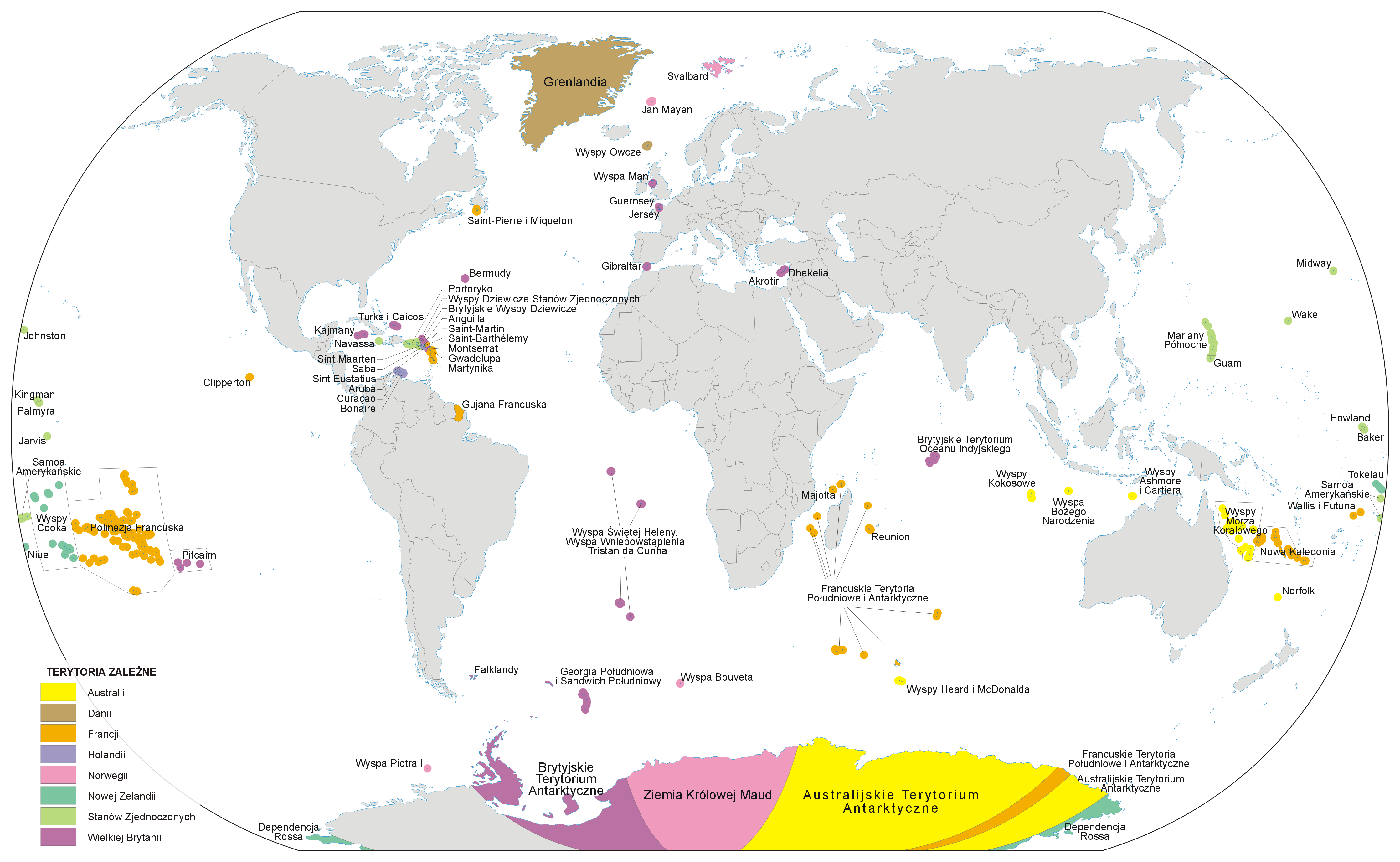 Dependent territories in 2011